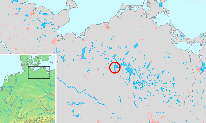 Locator maps of lakes in Germany : Plauer See.PNG